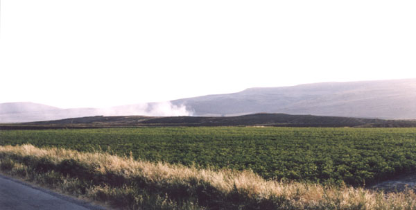 Site of Domuztepe in south east Turkey, viewed from the north east.